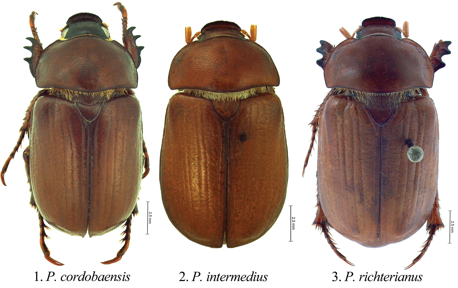 Dorsal habitus of Pseudogeniates species 1 Pseudogeniates cordobaensis 2 Pseudogeniates intermedius 3 Pseudogeniates richterianus